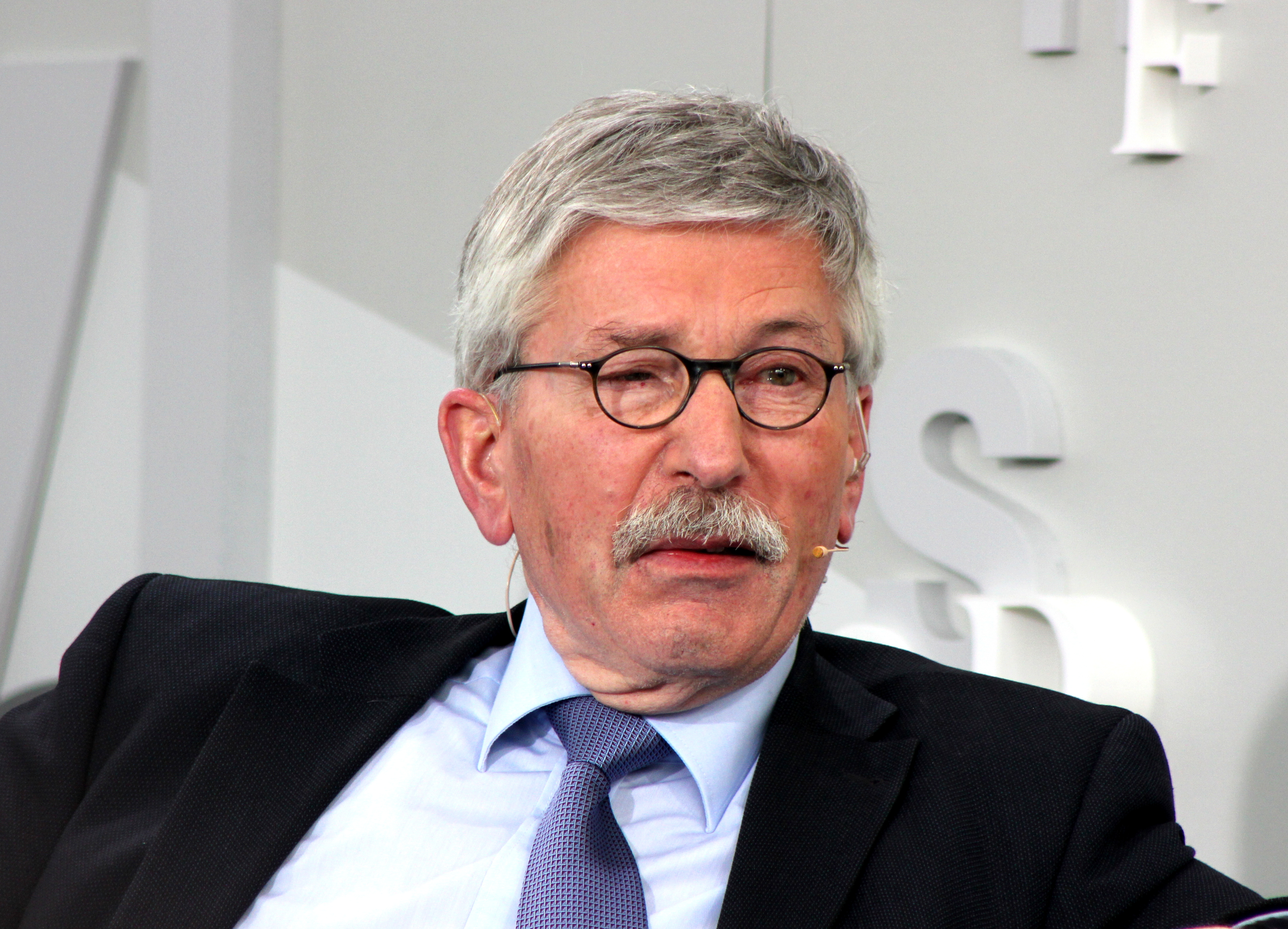 Thilo Sarrazin, Leipzig Book Fair 2014